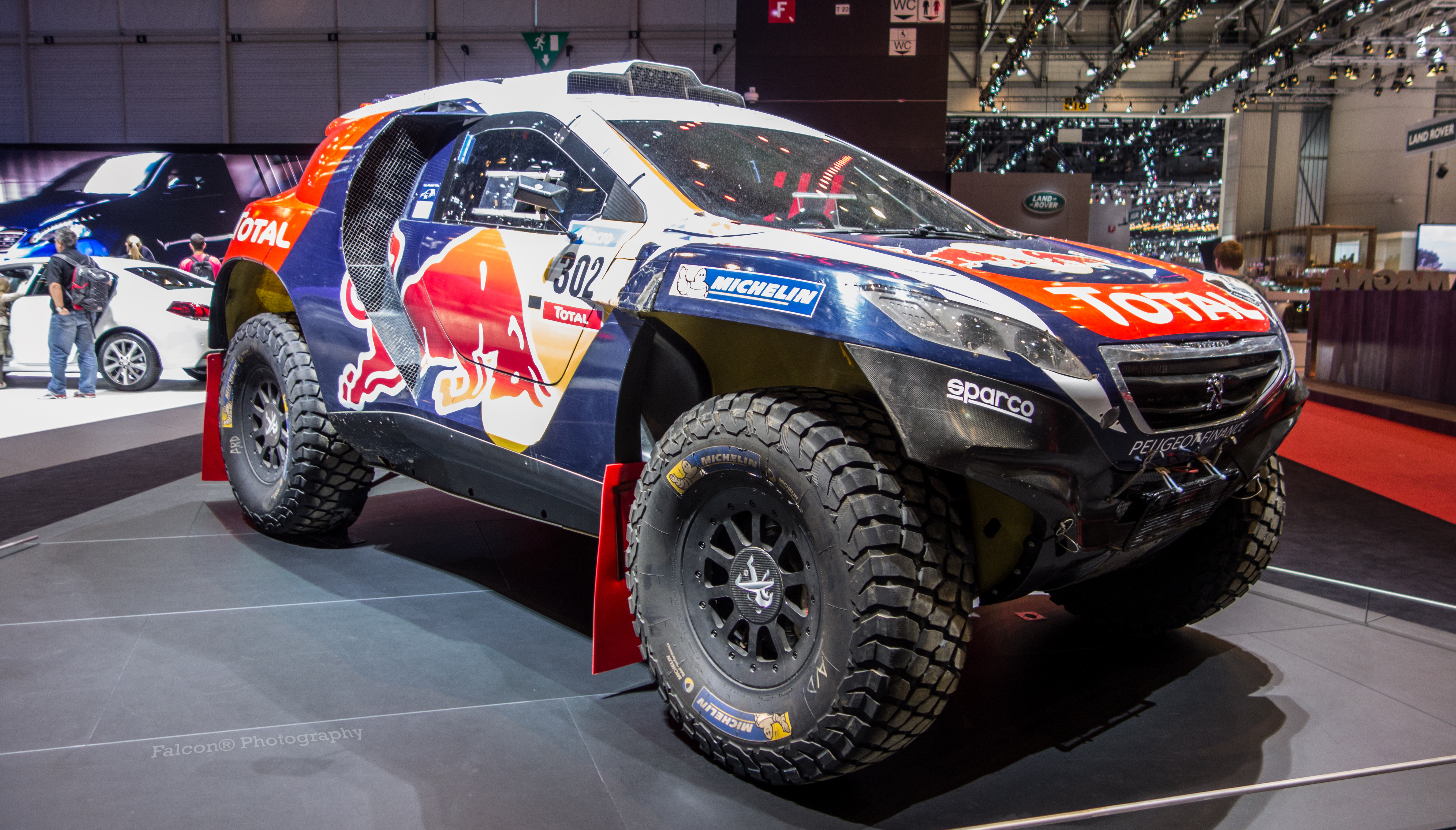 302 Team Peugeot Total Stephane Peterhansel Jean Paul Cottret